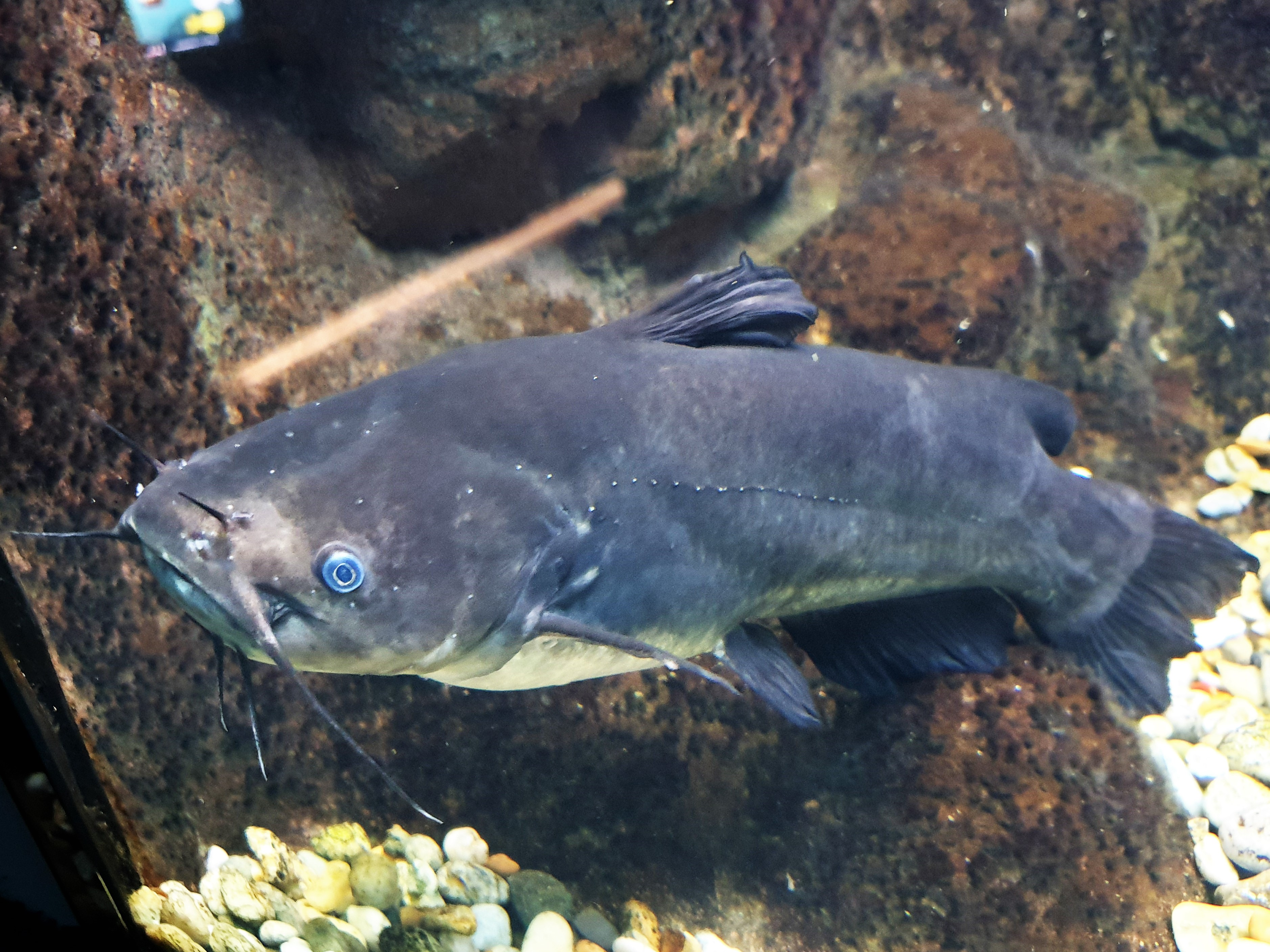 Black bullhead catfish (Ameiurus melas) at the Bodorka Balaton Aquarium in Balatonfüred, Hungary.